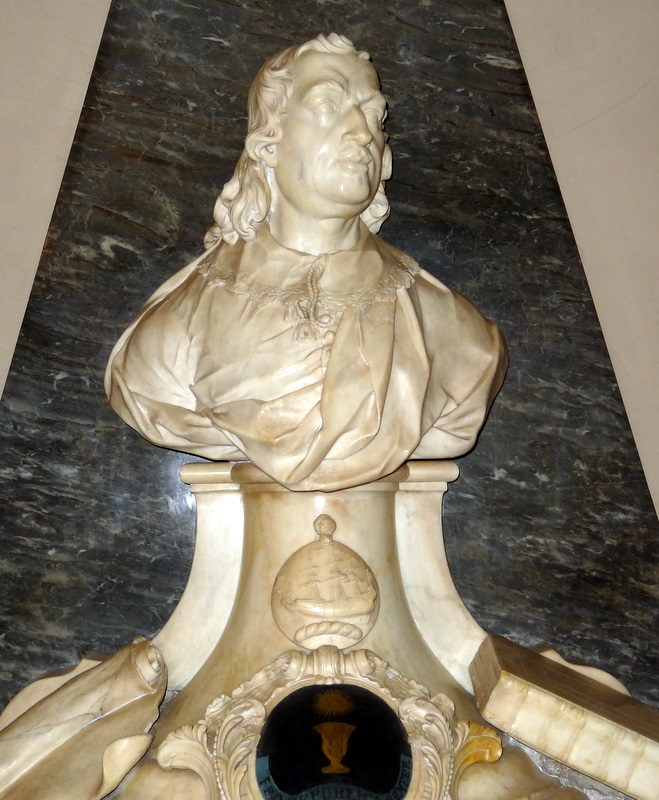 Samuel Vassall, a London merchant who refused to submit tot the Tax of Tonnage and Poundage.